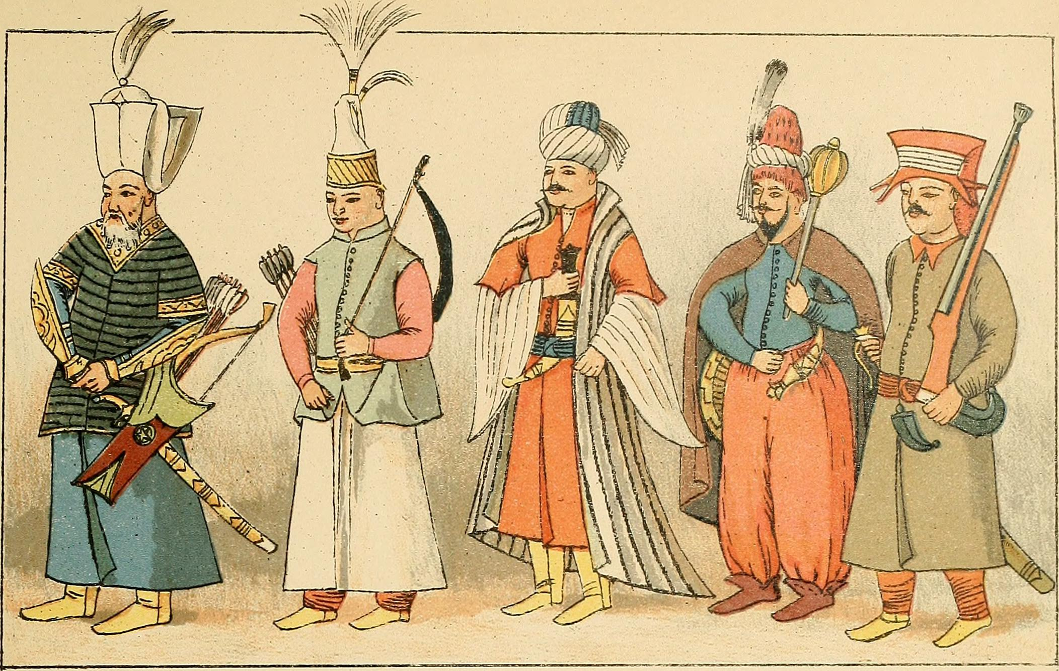 Title: Geschichte des Kostüms Year: 1905 (1900s) Authors: Rosenberg, Adolf, 1850-1906 Heyck, Eduard, 1862-1941 Subjects: Costume Publisher: New York, Weyhe Text Appearing Before Image: TURKEY TÜRKEI 1600—1700 TURQUIE GEDRUCKT UND VERLEGT BEI ERNST WASMUTH A.-G., BERLIN 209 Text Appearing After Image: '